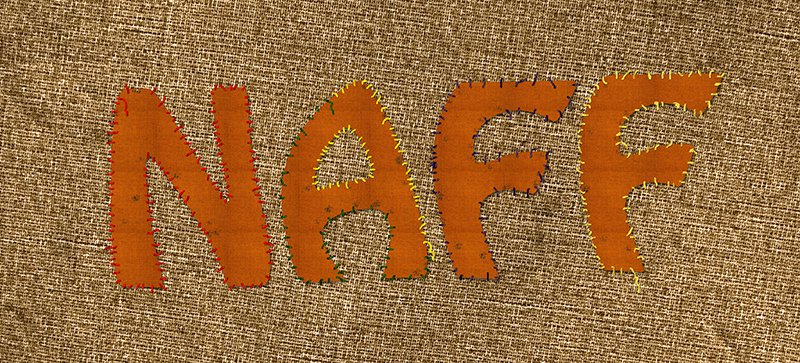 naff 2012 logo